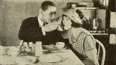 Still from the American film The Married Flapper (1922) with Kenneth Harlan and Marie Prevost, from page 61 of the October 1922 Photoplay.